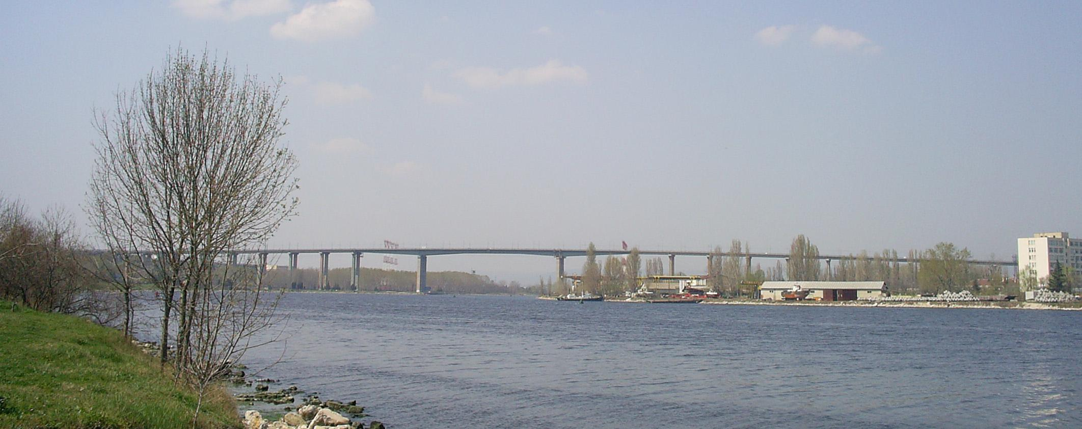 Asparuhv bridge in Varna, Bulgaria, as seen from "Asparuhovo" estate